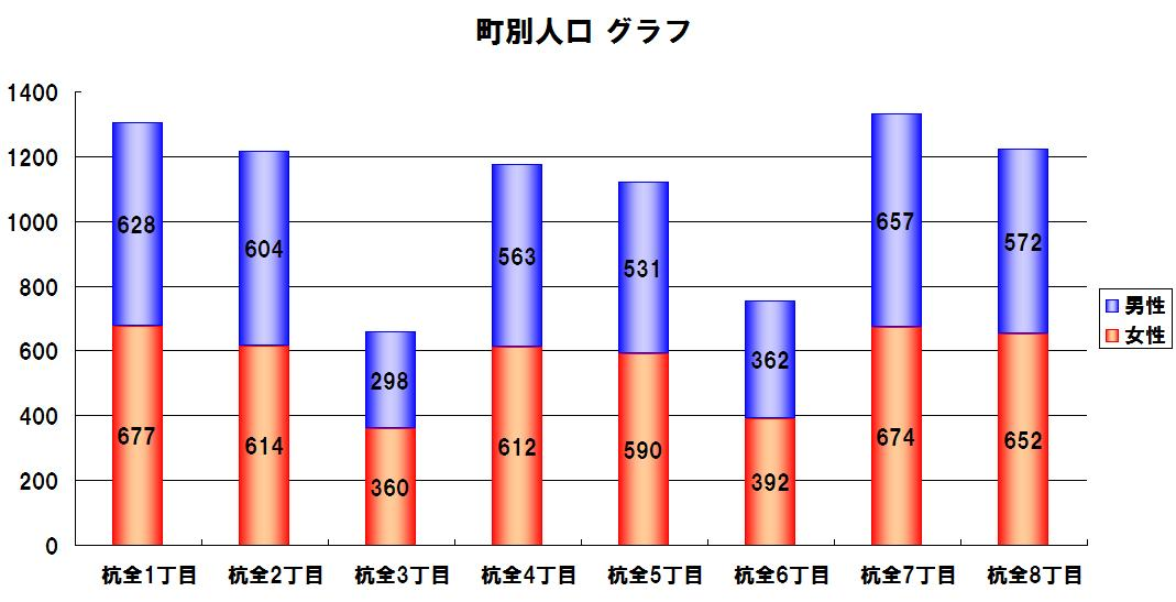 kumata chou choubetu jinkou gurahu